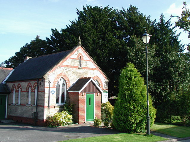 West Ella Methodist Church, West Ella, East Riding of Yorkshire, England.Looking east-southeast from the junction of Manor Fields and Chapel Lane. The former Wesleyan Chapel was built in 1895 directly in front of an older one built in the early 1800s. The chapel was lit by oil lamps until 1921.